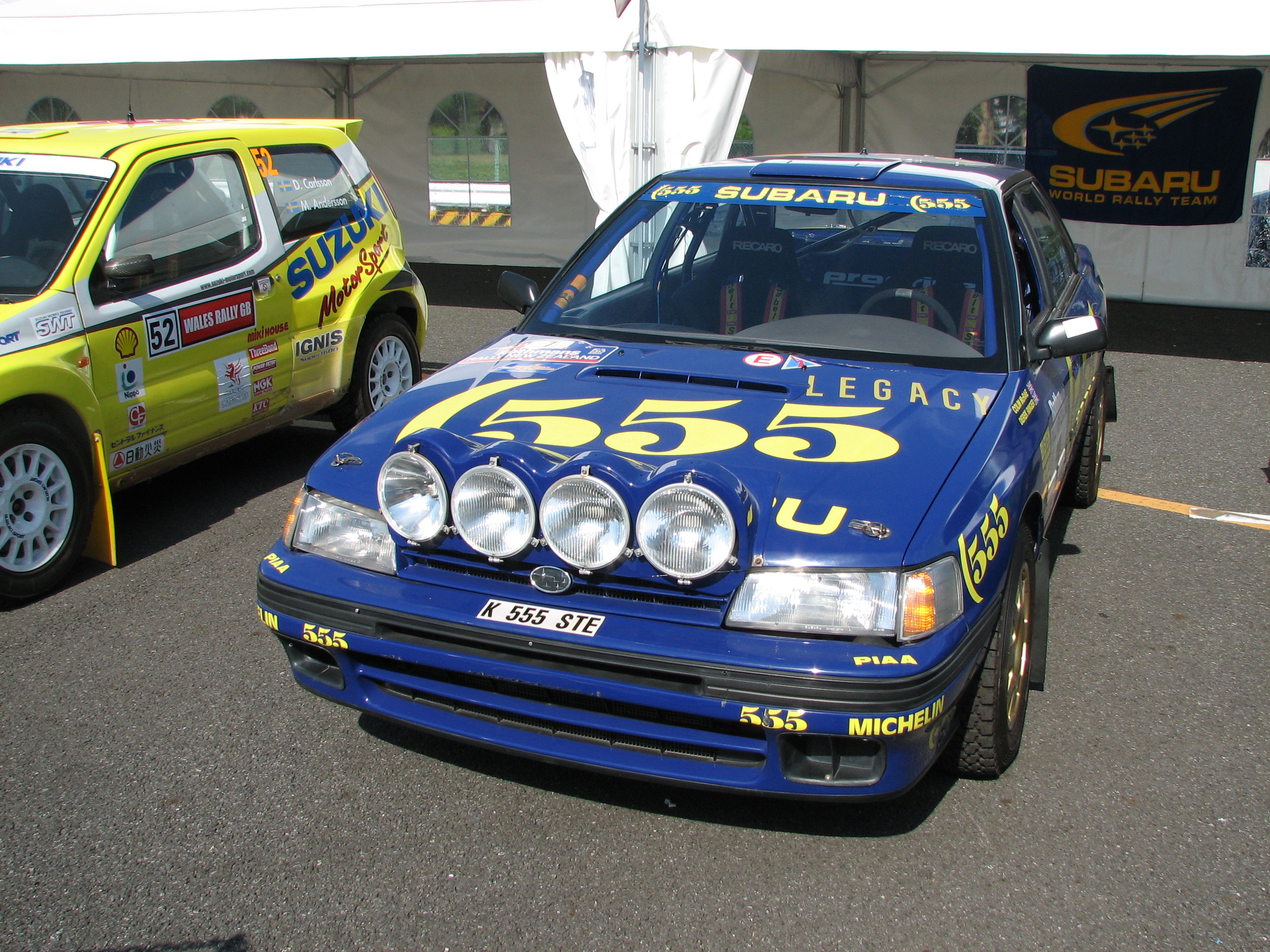 1st Gen Legacy Rally